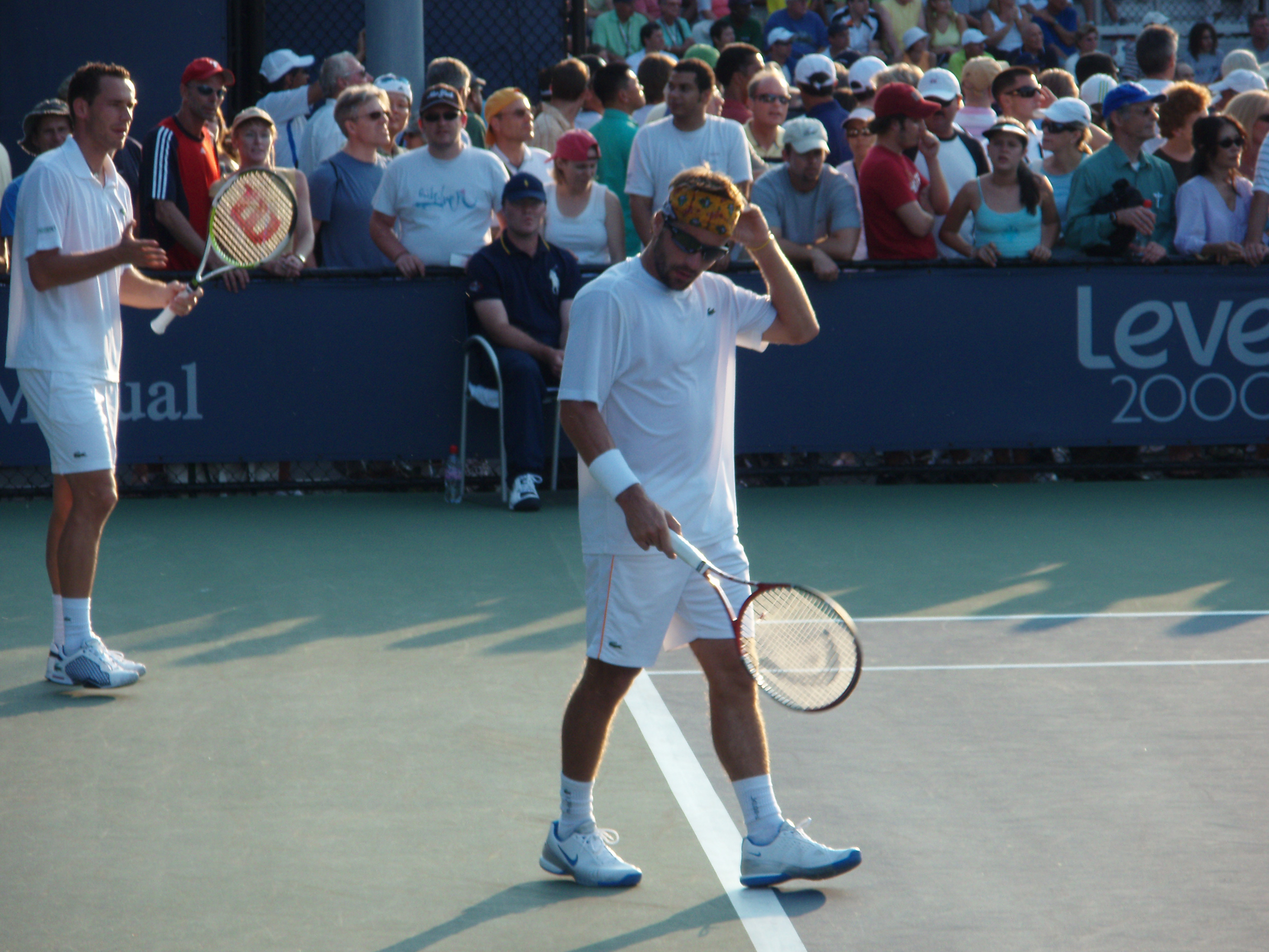 Arnaud Clement Playing Doubles At The 2007 US Open